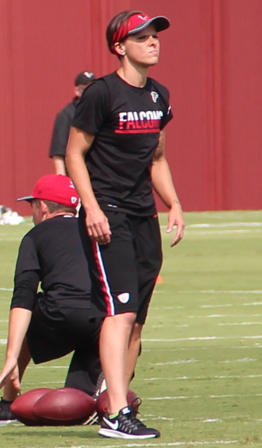 Flowery Branch, GA